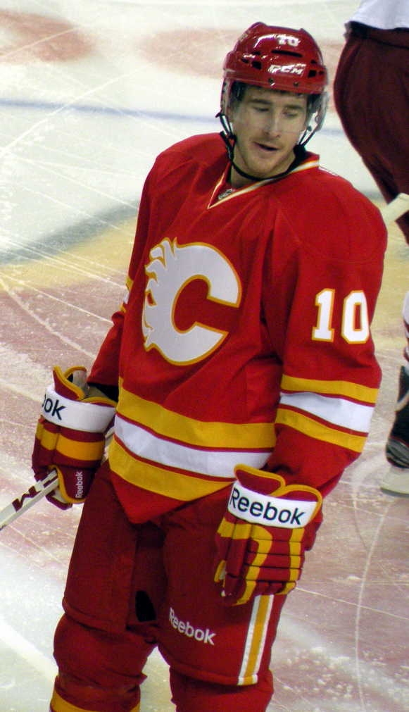 Calgary Flames forward Roman Cervenka prior to a National Hockey League game against the Phoenix Coyotes.